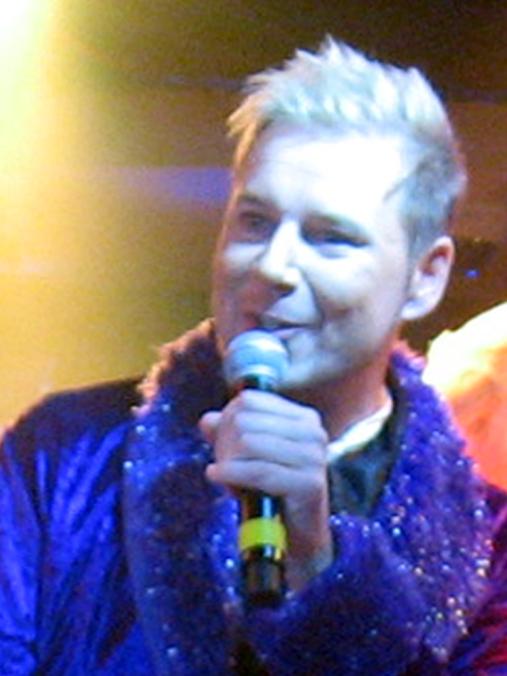 Thommy Fagerlund and Xprs Singers performing at M/S Viking XPRS, December 2013